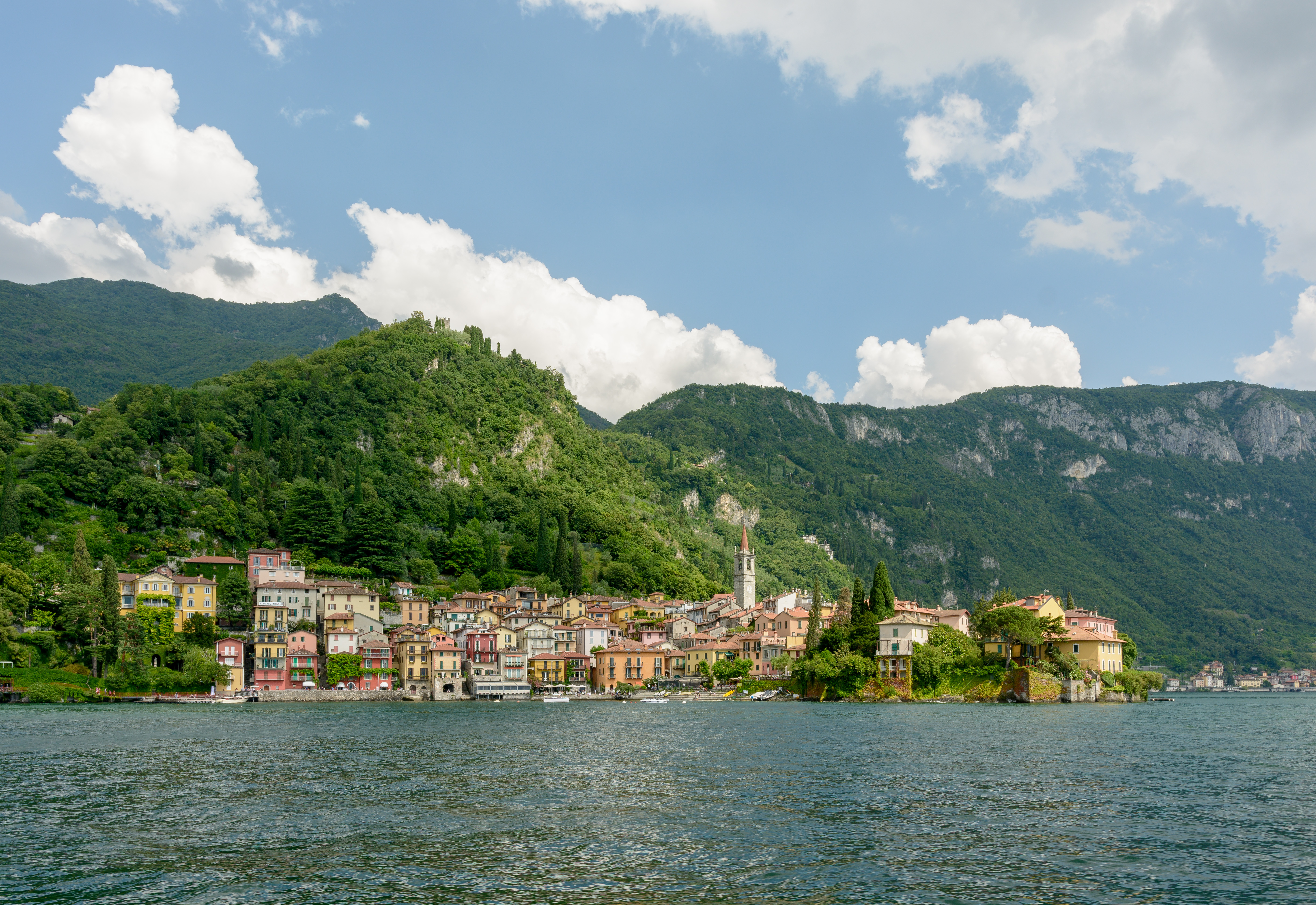 Varenna